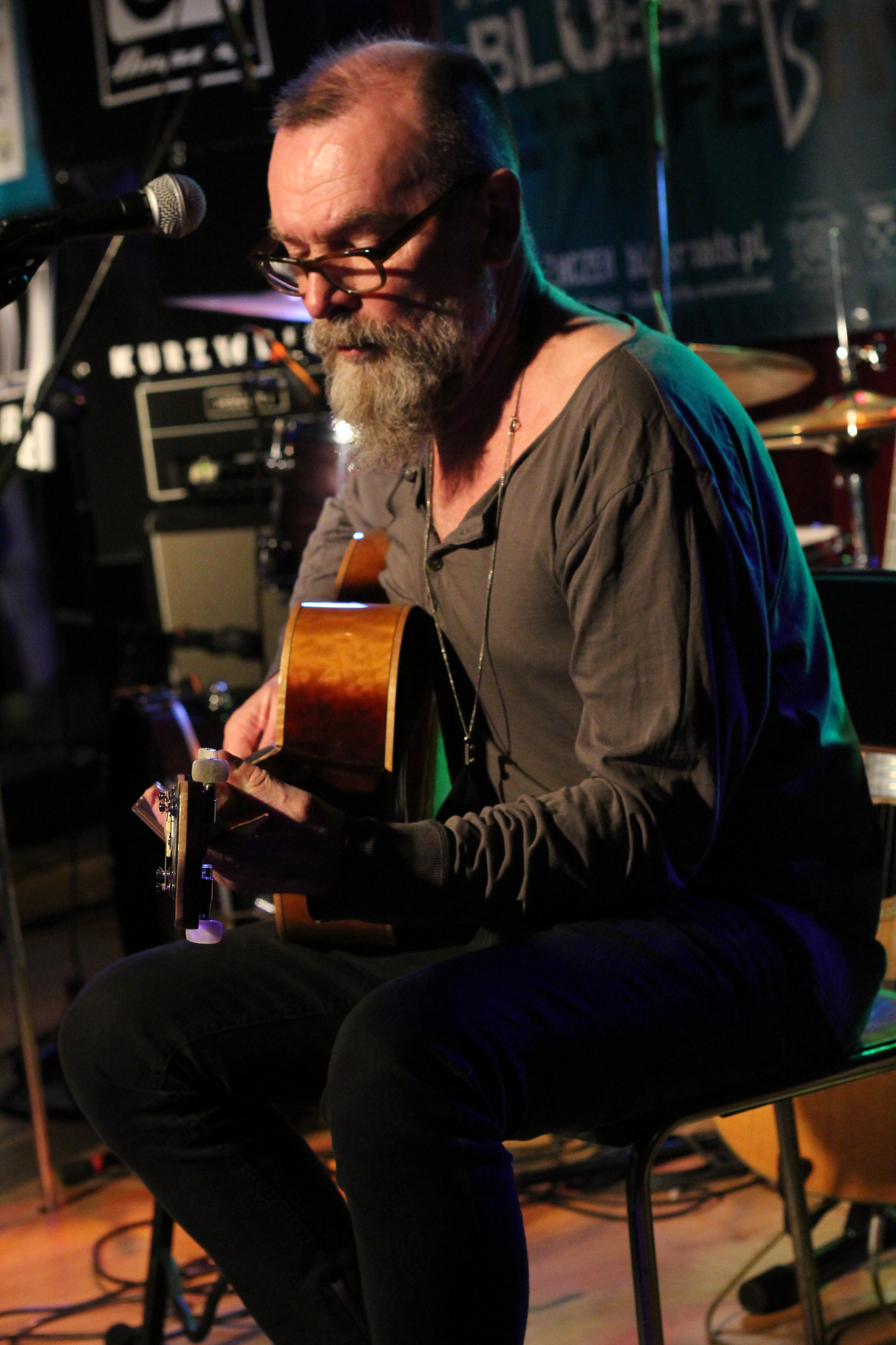 Wojciech Waglewski performing at 4th edition of Bluesroads festival in Cracow.